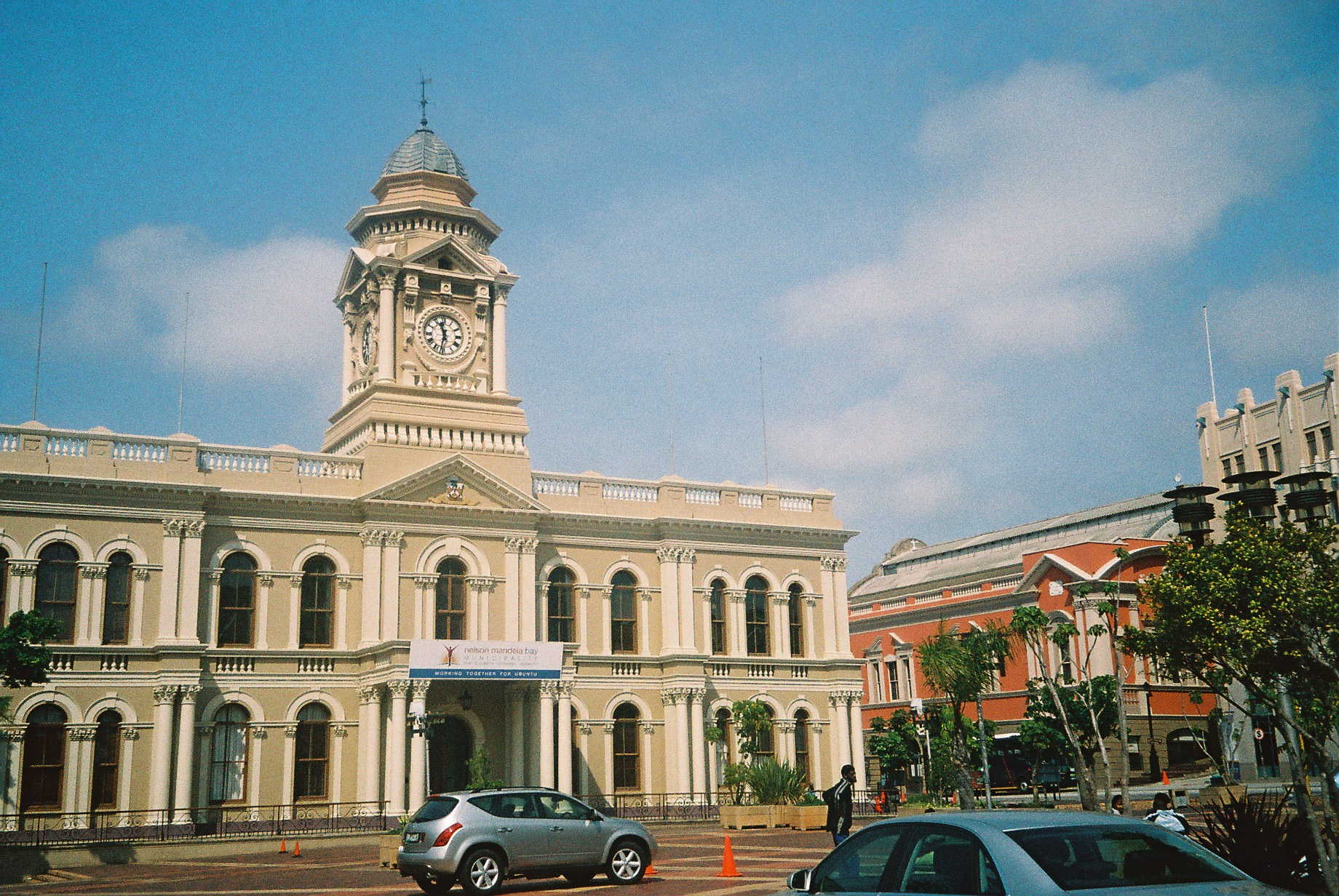 Town Hall of Port Elizabeth (South Africa)